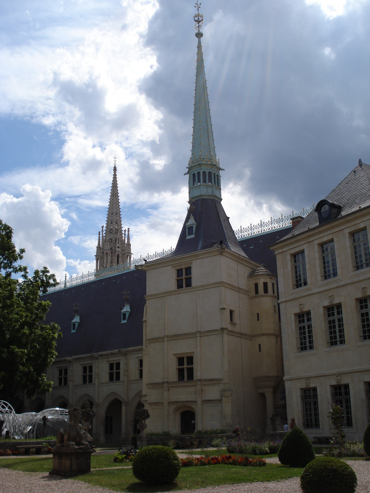 Rear view of the Ducal Palace of Nancy